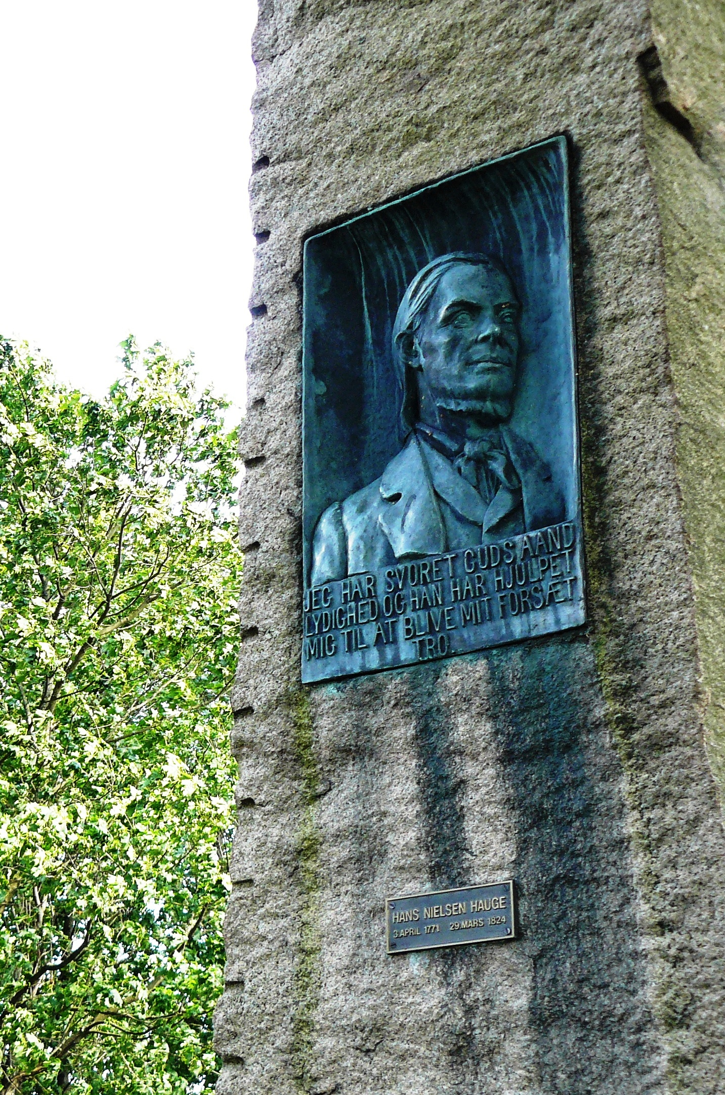 Obelisk with memorial plate of Hans Nielsen Hauge, by Bredtvet church, Oslo